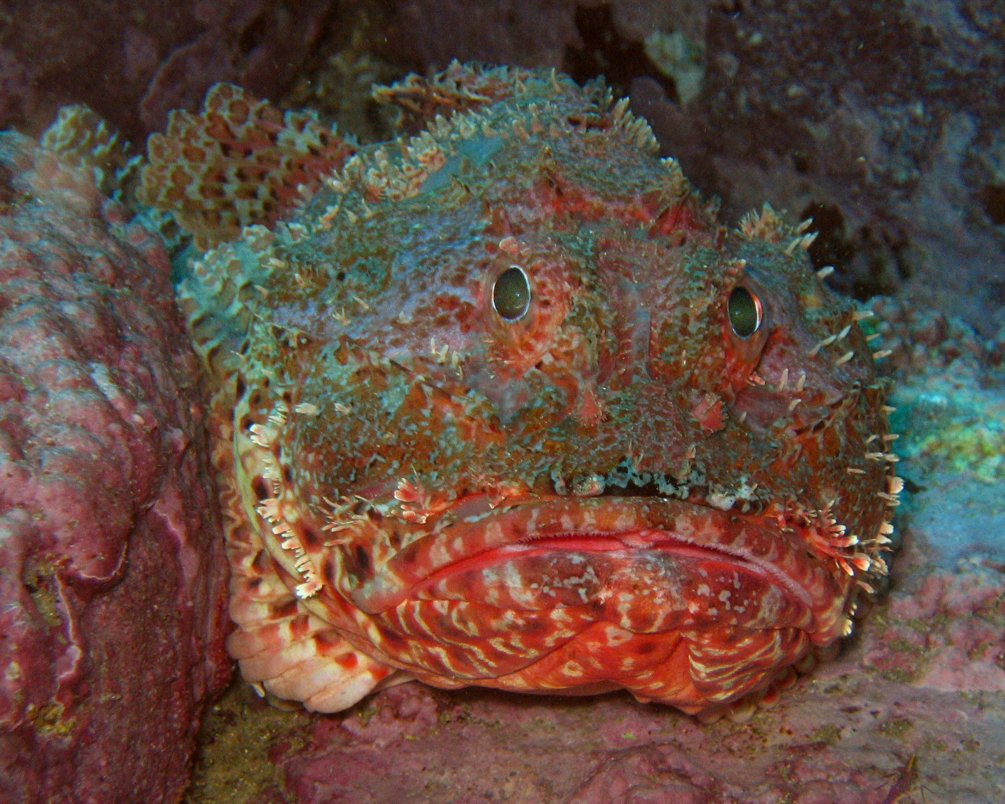 Eastern Red Scorpionfish (Scorpaena cardinalis). The Gap, Sydney, NSW